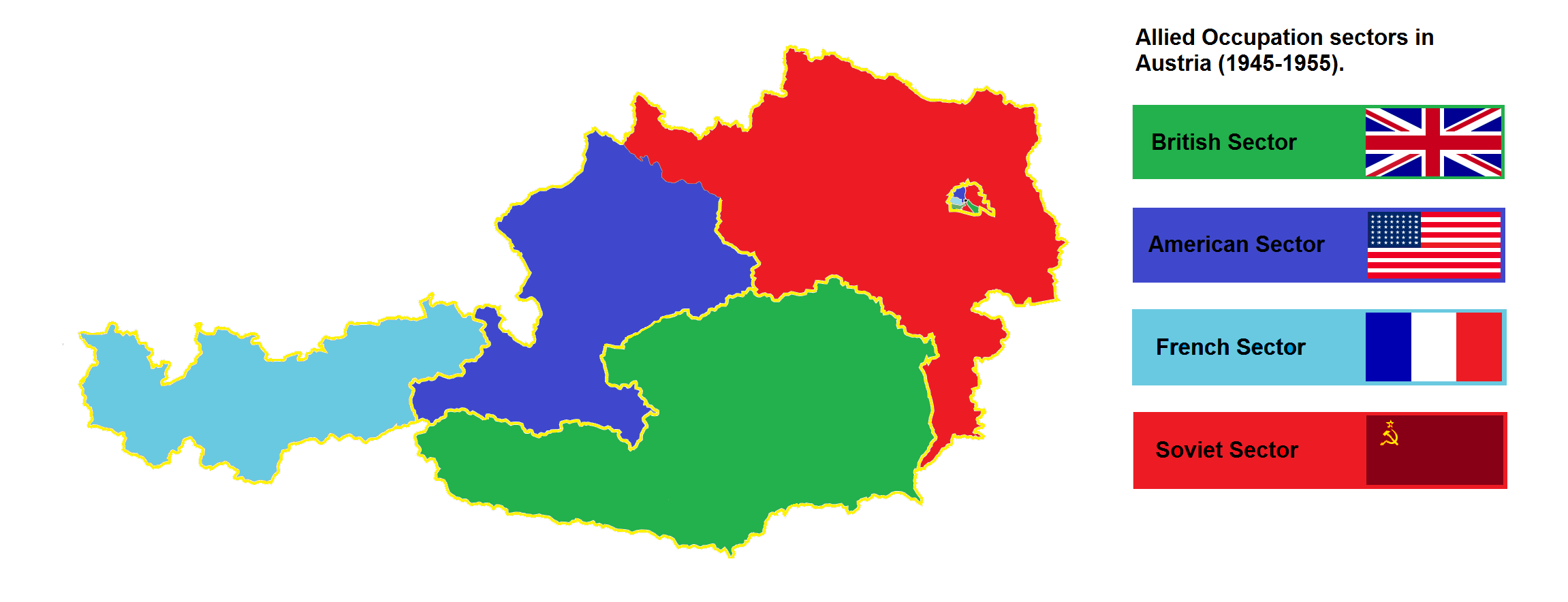 Allied Occupation sectors in Vienna (1945-1955).